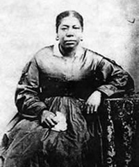 Photograph of Jane Elizabeth Manning James